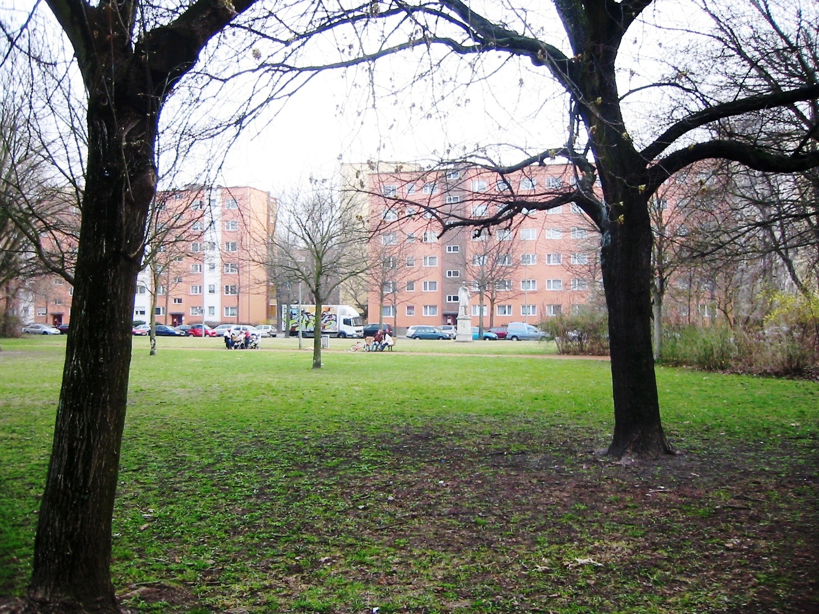 Waldeckpark in Berlin-Kreuzberg (Germany)